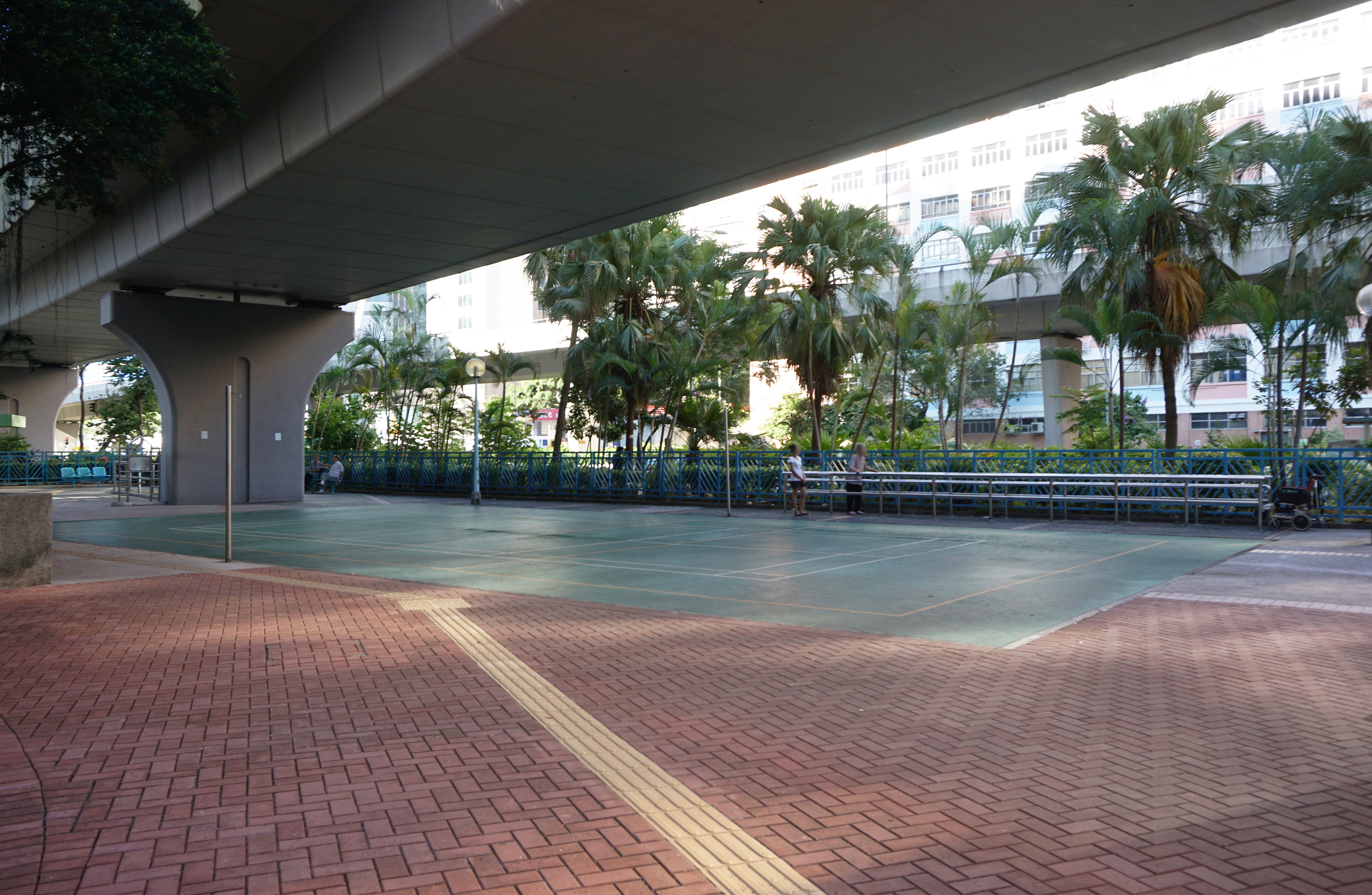 Kwai Fong Estate in Kwai Chung, Hong Kong.